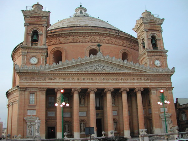 Picture: Rotunda Santa Marija Assunta in Mosta, Malta (October 2003, late afternoon) Author: bulbul I know it's not much, but it will do for now. Feel free to use it in whatever way you wish.